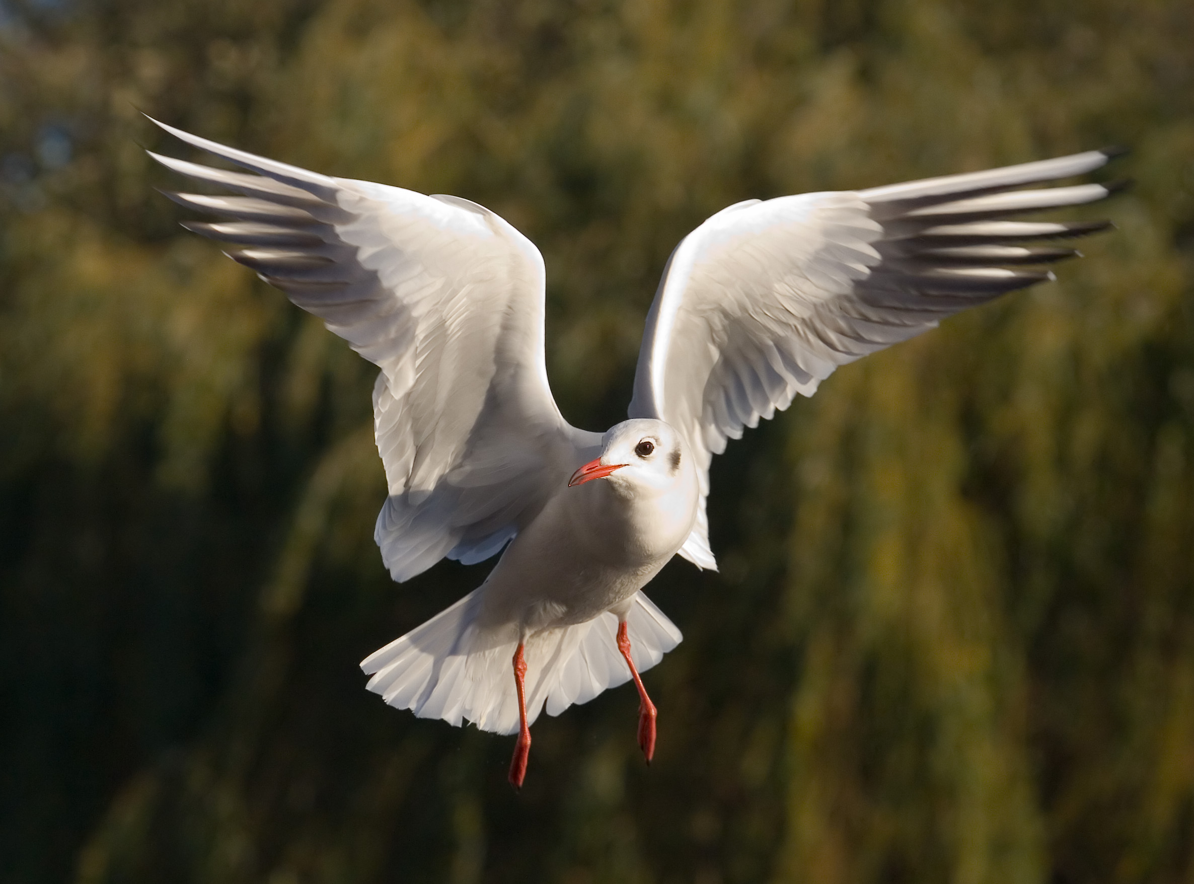 A Black-headed Gull in St James's Park, London, England. Although the gull typically has a black head, as the name suggests, its winter plumage around the head is white with black spots, visible on the side of the head. This image was taken by myself with a Canon 5D and 70-200mm f/2.8L lens at 150mm, ISO 1600 and f/8 with a 1/1250s shutter speed.